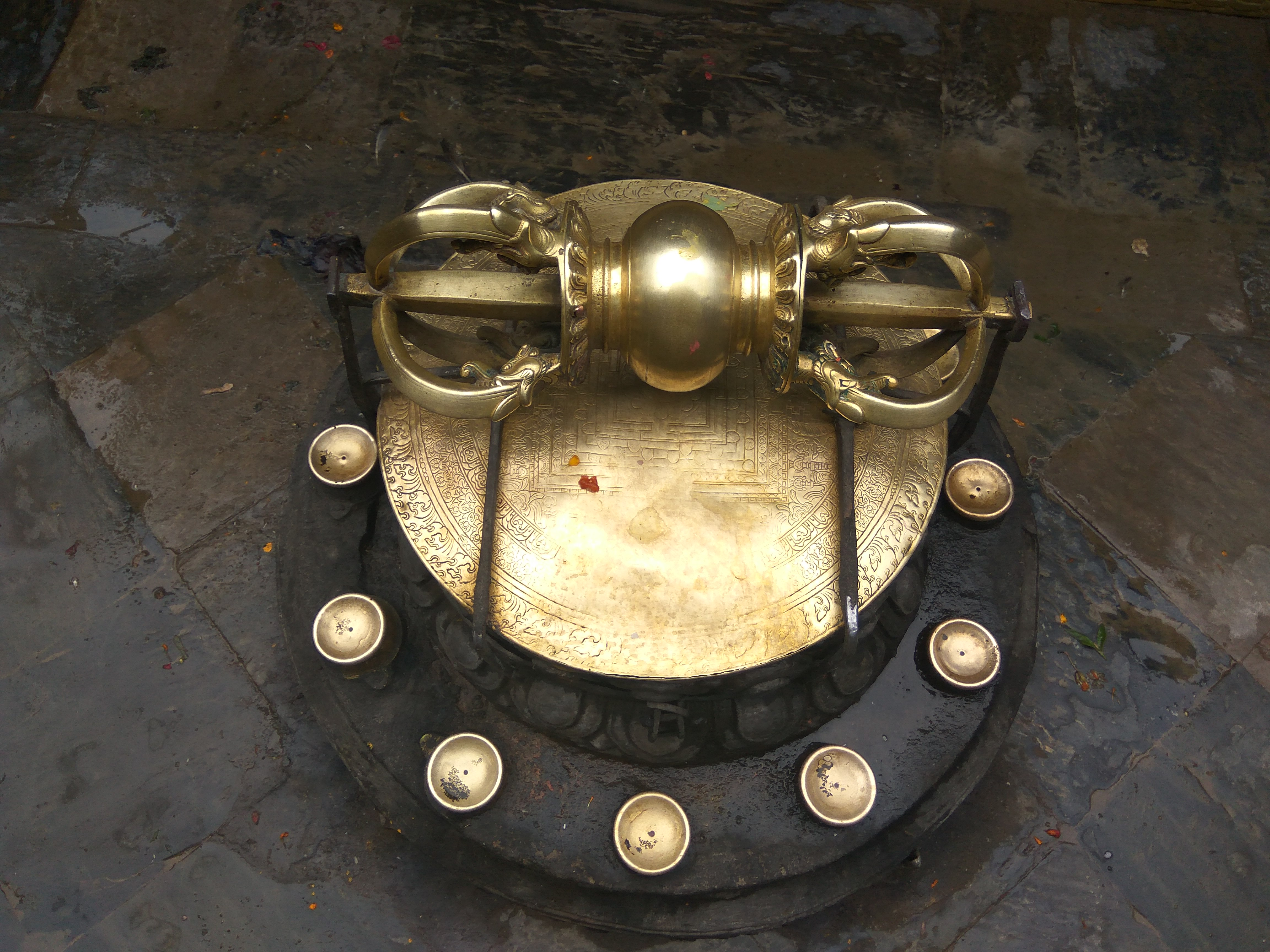 Bajra at Golden Temple premises